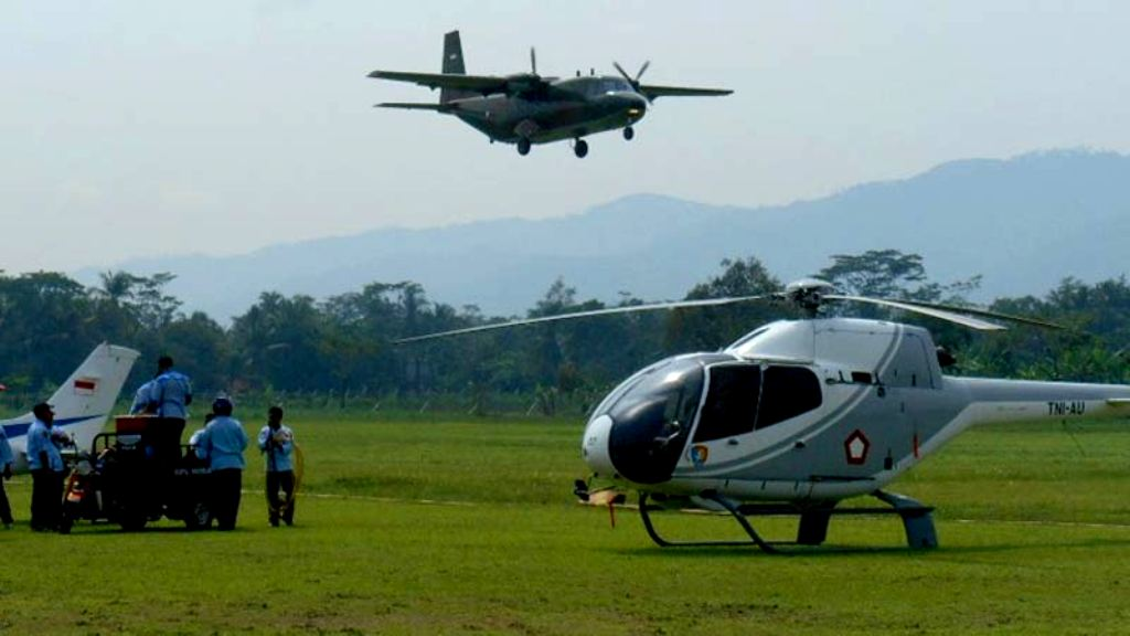 BJBS Wirasaba